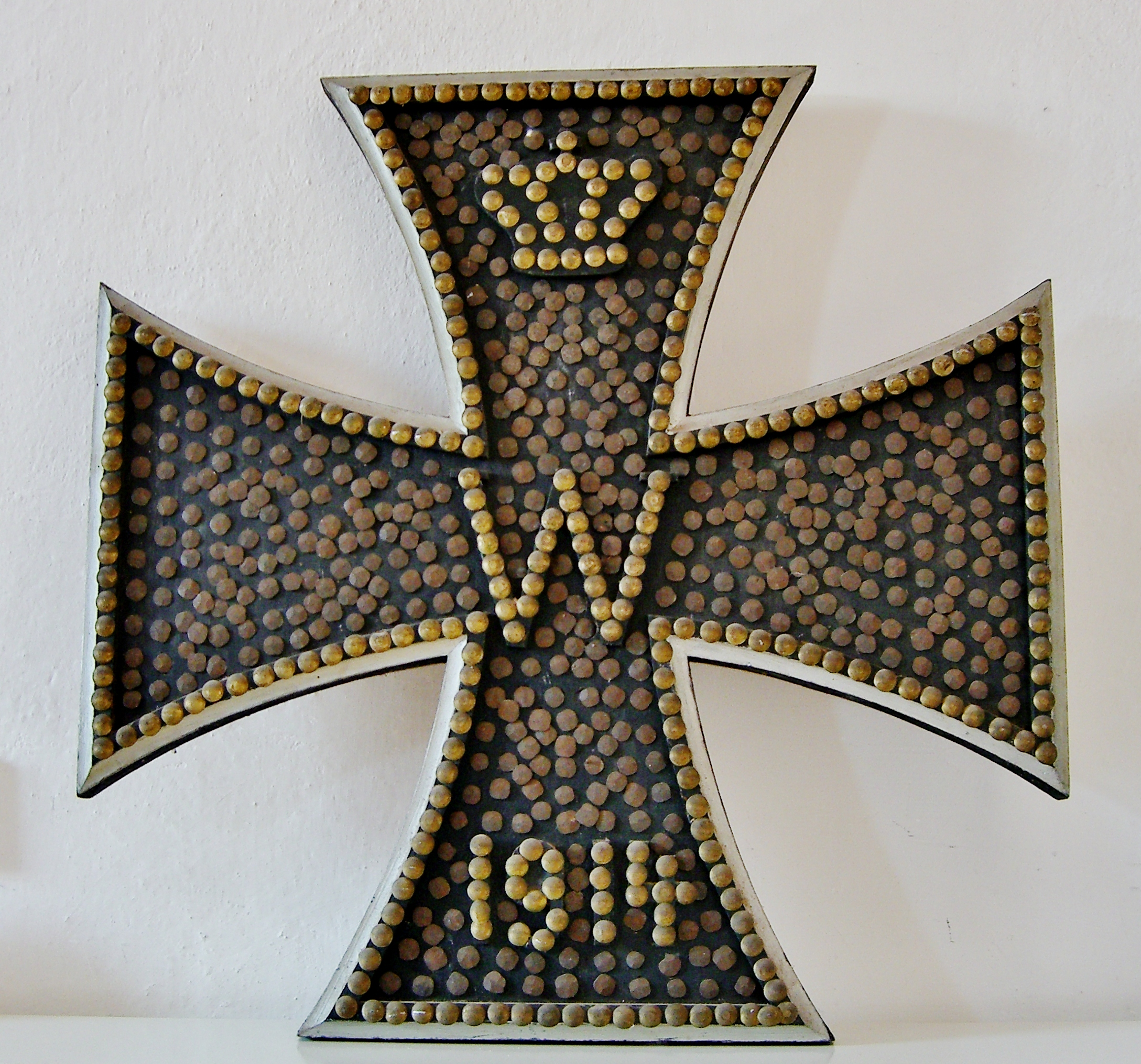 Iron cross in St. Mary-Church Plau am See, nailed in 1916